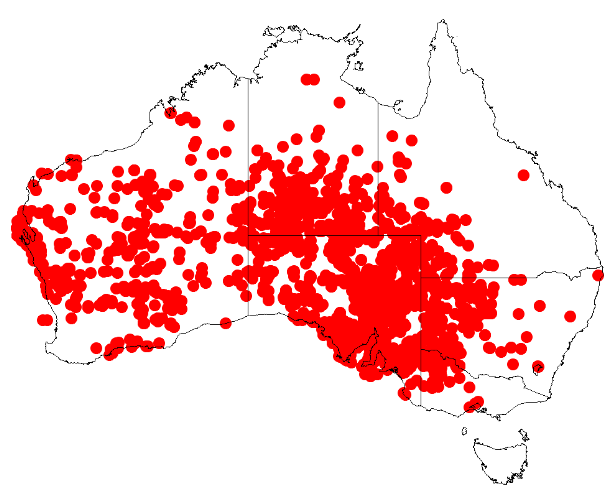 Acacia ligulata Occurrence data from Australasia Virtual Herbarium downloaded from on 8 December 2018